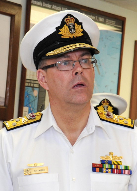 PEARL HARBOR, Hawaii (April 12, 2013) Adm. Cecil D. Haney, commander of U.S. Pacific Fleet, describes historical photos to Royal Australia Chief of Navy Vice Adm. Ray Griggs during a tour of the U.S. Pacific Fleet's boathouse museum. While visiting Pearl Harbor, Griggs also received briefings at the Pacific Fleet headquarters and took part in discussions associated with the strong relationship between the Royal Australian Navy and U.S. Navy. (U.S. Navy photo by Mass Communication Specialist 2nd Class David Kolmel/Released)